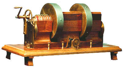 Ányos Jedlik's dynamo (1861)